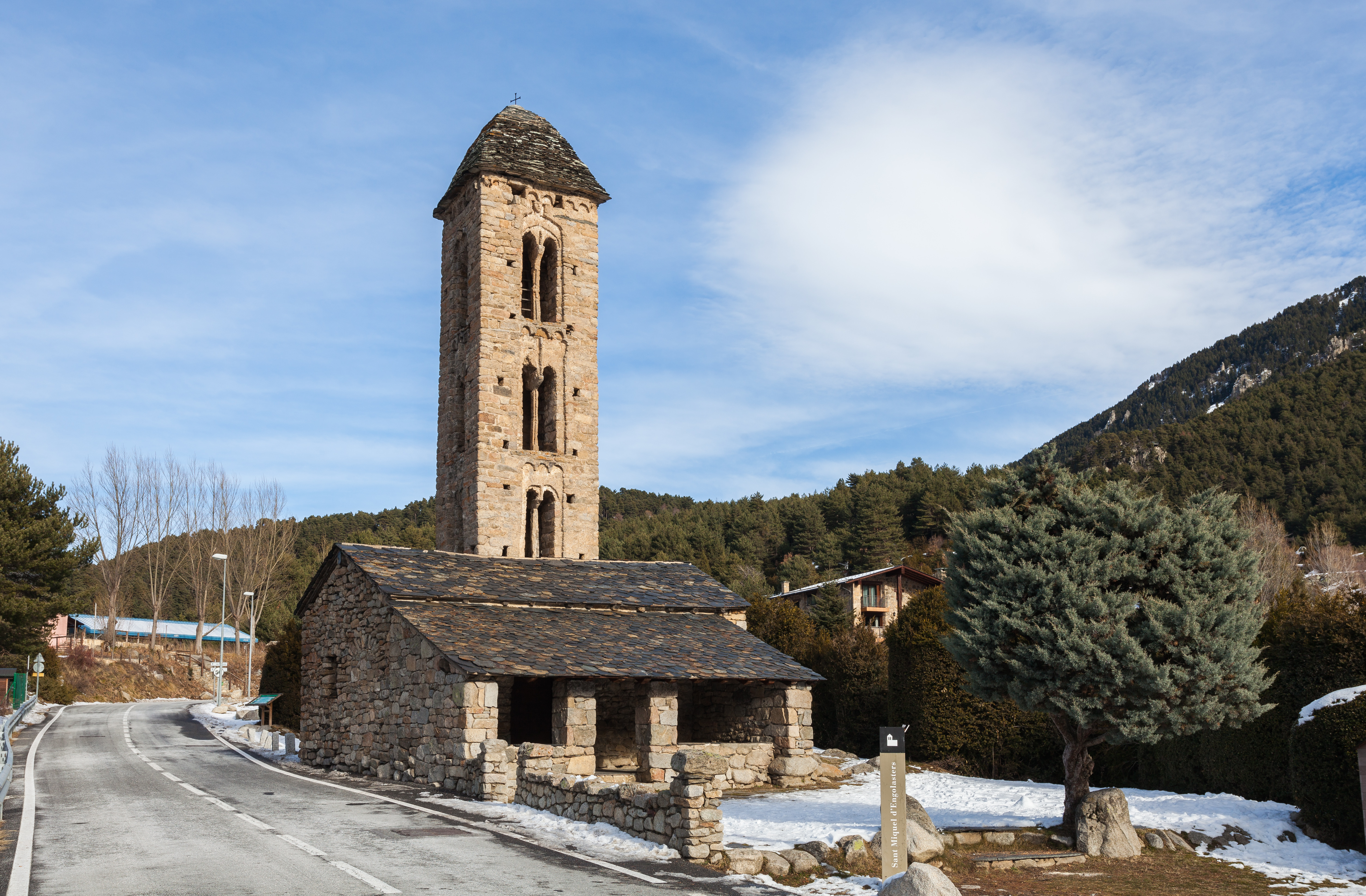 Church of St Michael of Engolasters, Engolasters, Andorra